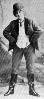 Lona Barrison, one of the notorious Barrison Sisters